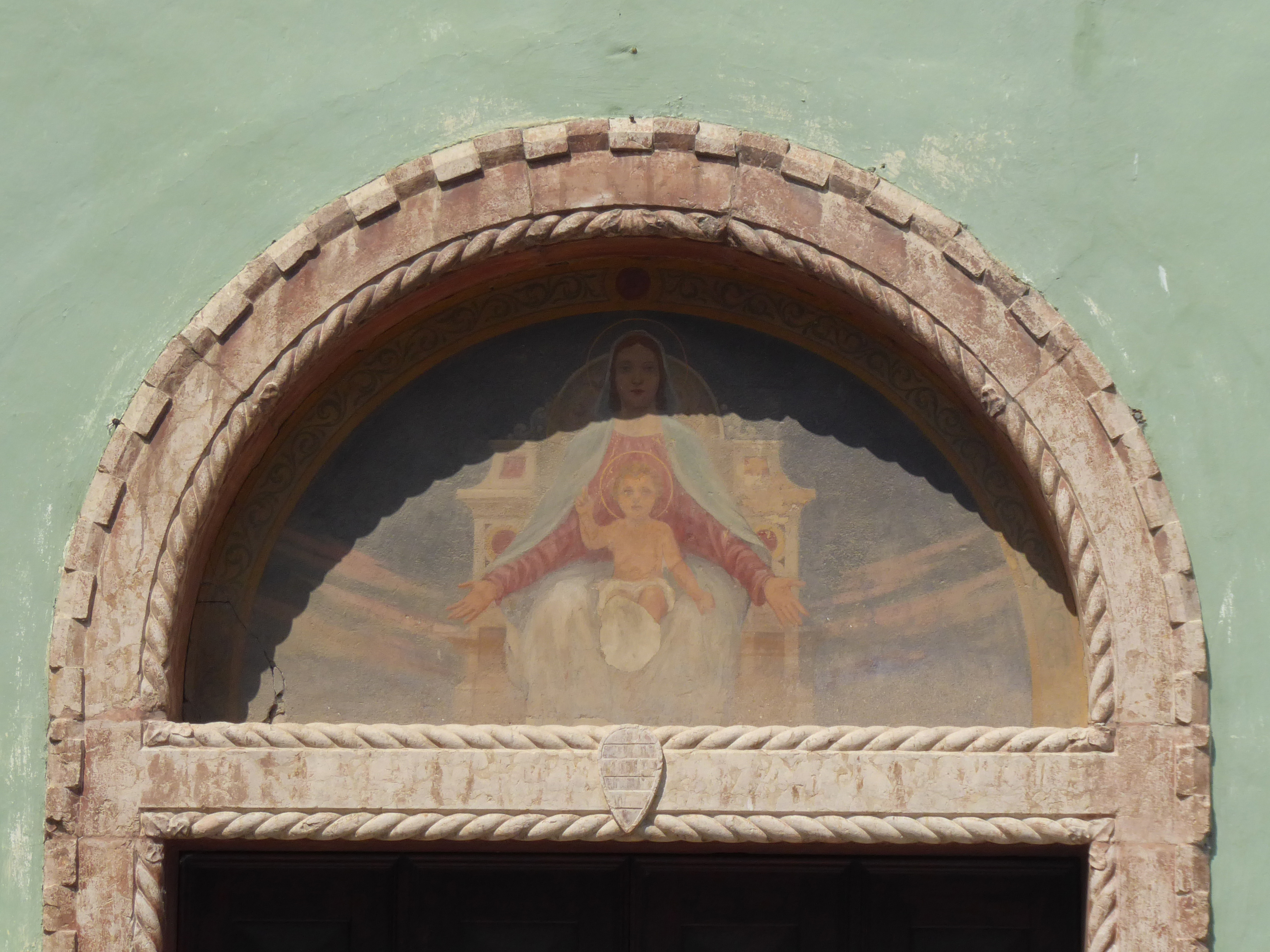 Chizzola (Ala, Trentino, Italy), Saint Nicholas church - Fresco on Madonna and Child above the entrance